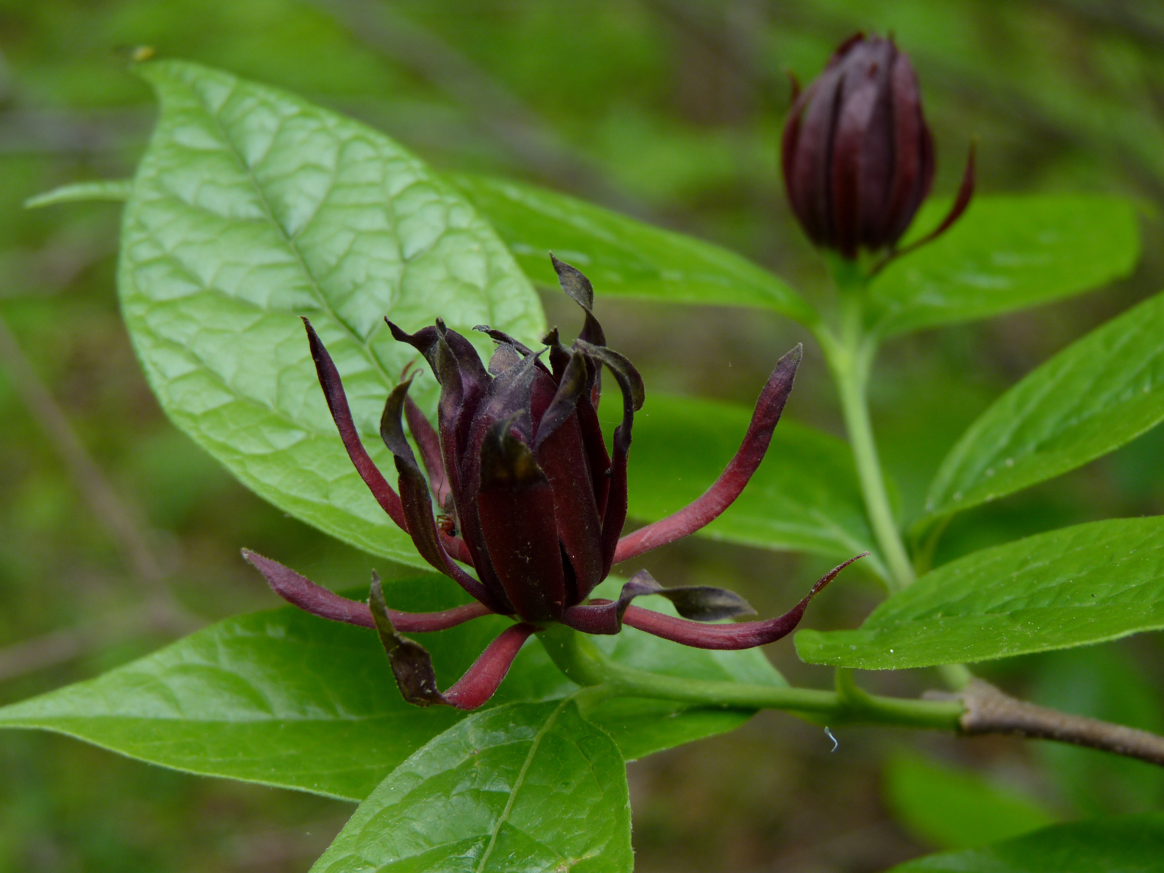 Calycanthus floridus var. glaucus (syn: Calycanthus fertilis — Carolina allspice. Native to the Eastern United States.